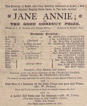 Theatre programme for Jane Annie, 1893